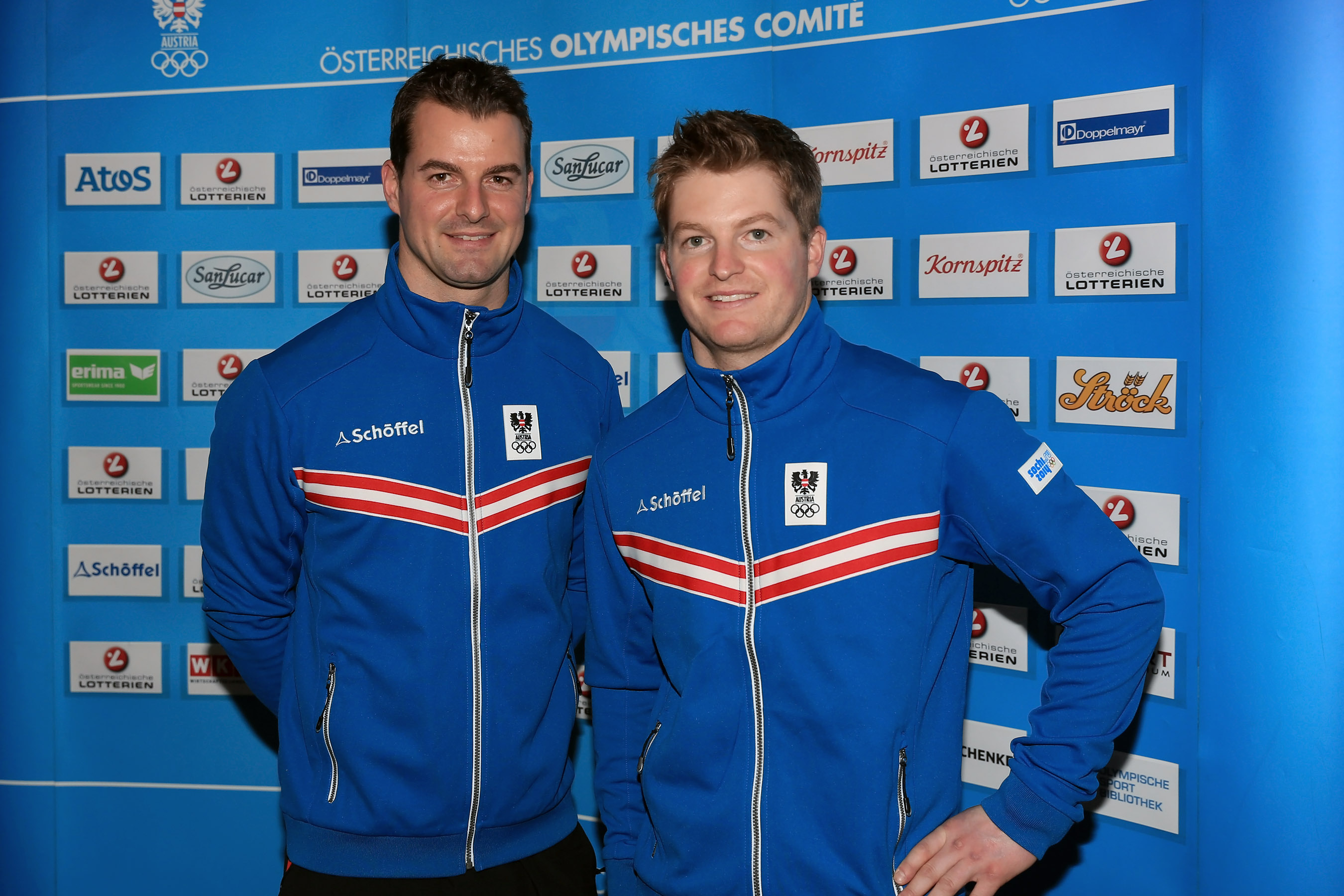 Andreas and Wolfgang Linger (luge) at the outfitting of the Austrian team for the 2014 Winter Olympics (Hotel Marriott in Vienna, Austria.